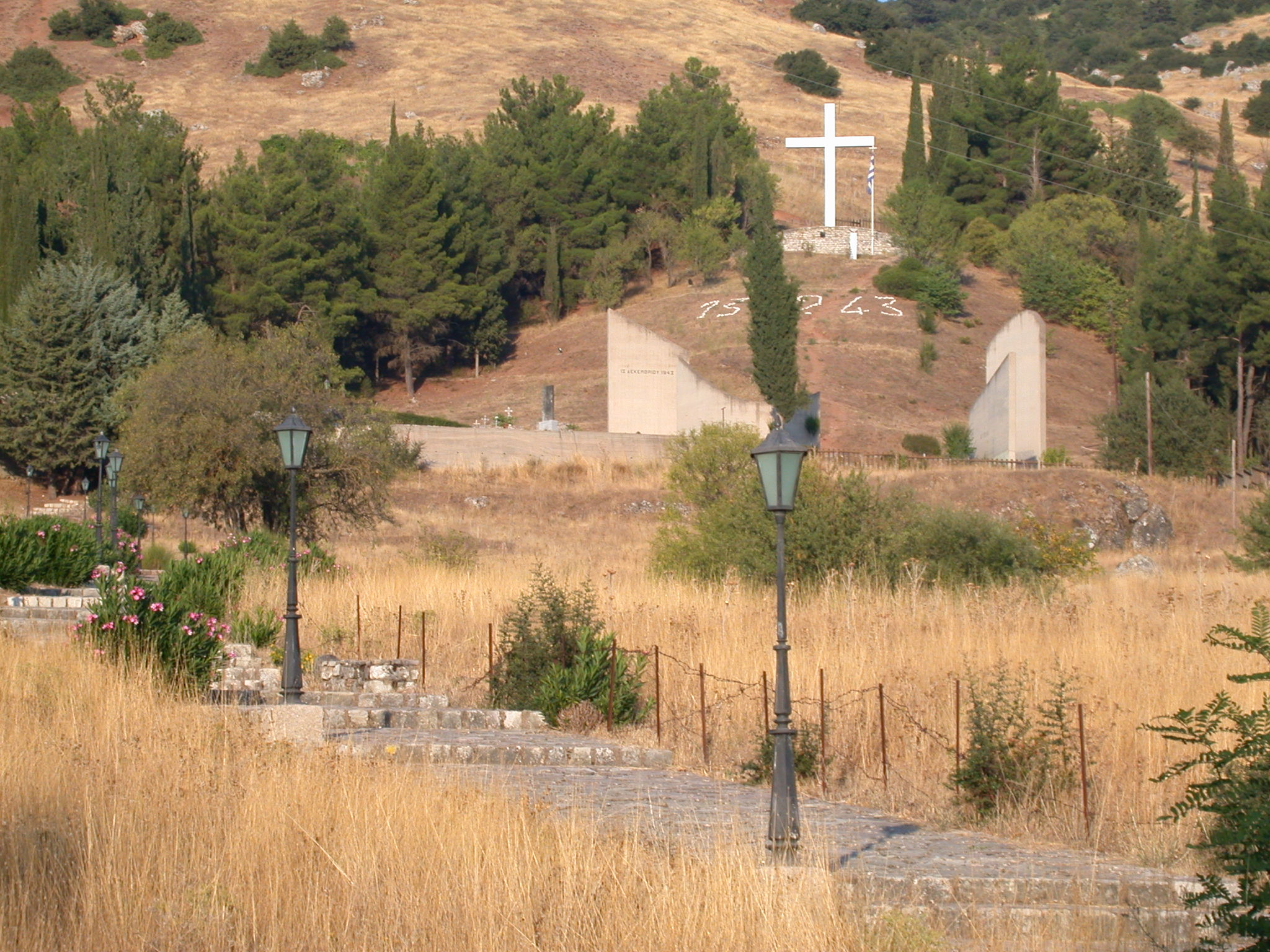 Memorial of the Kalavrita Massacre 13. Dec. 1943